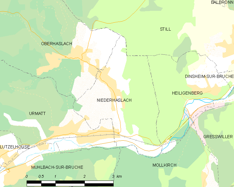 Map of French municipality